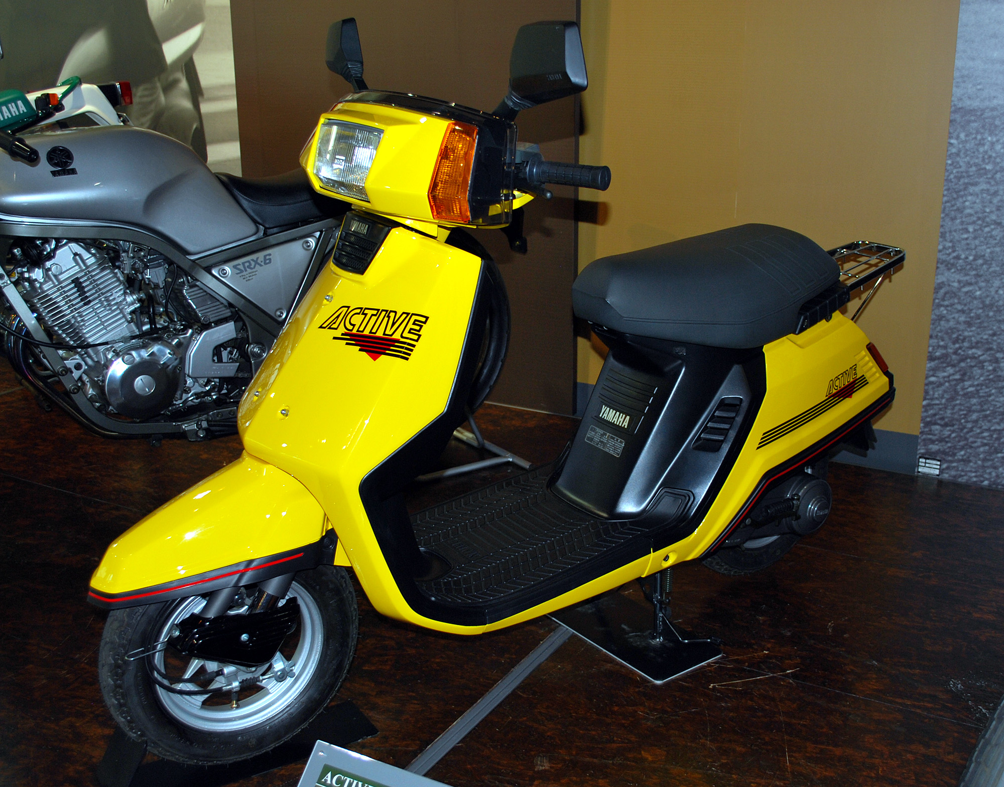 Yamaha Active (1983)